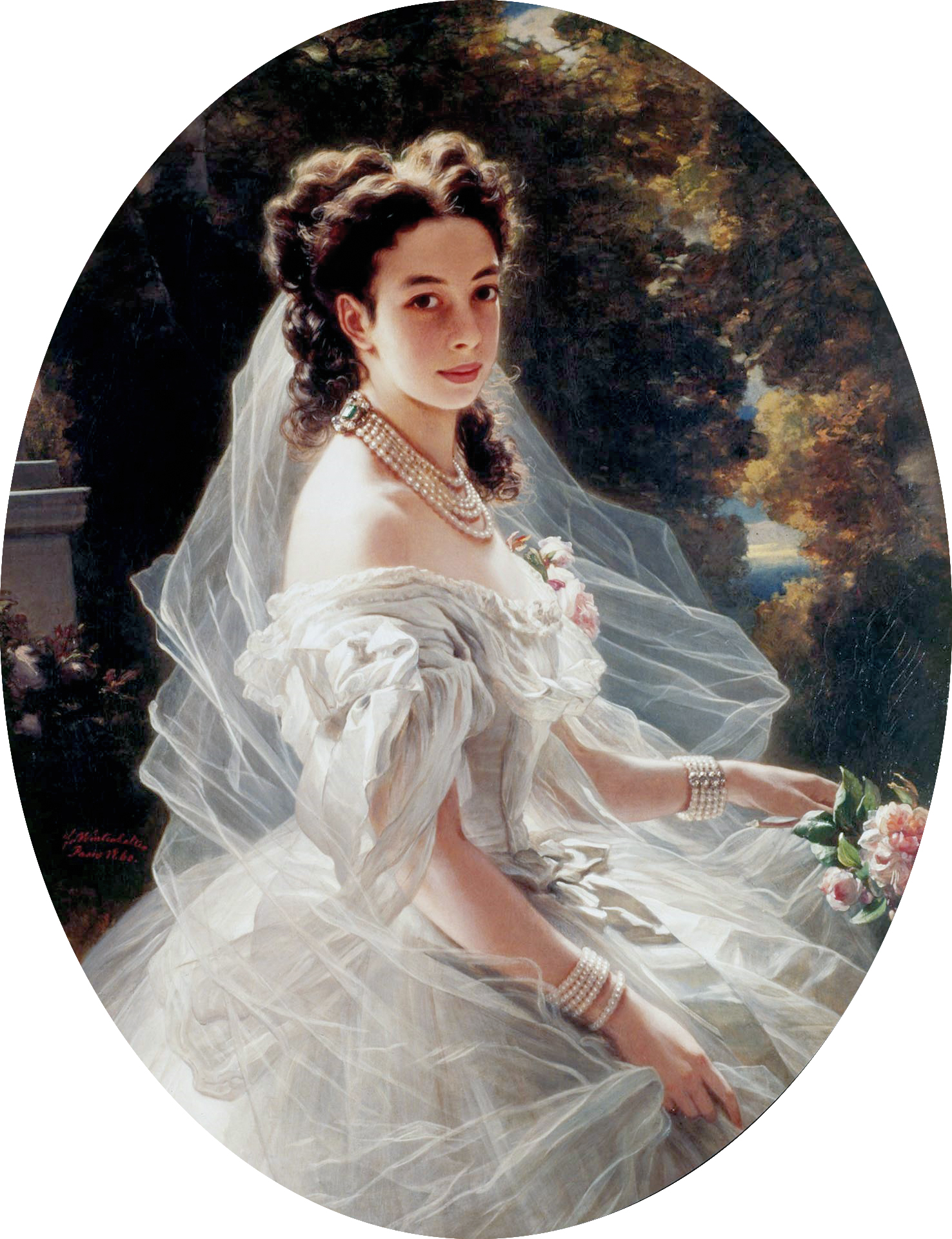 Pauline Sándor, Princess Metternich oil on canvas signed b.l: Fr Winterhalter / Paris 1860.